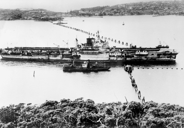 The British aircraft carrier HMS Formidable (R67) going through the anti-submarine boom in Sydney Harbour. The blackened funnel was the result of a kamikaze aircraft which crashed on deck. The photograph was taken from George's Head and looks towards Green Point.